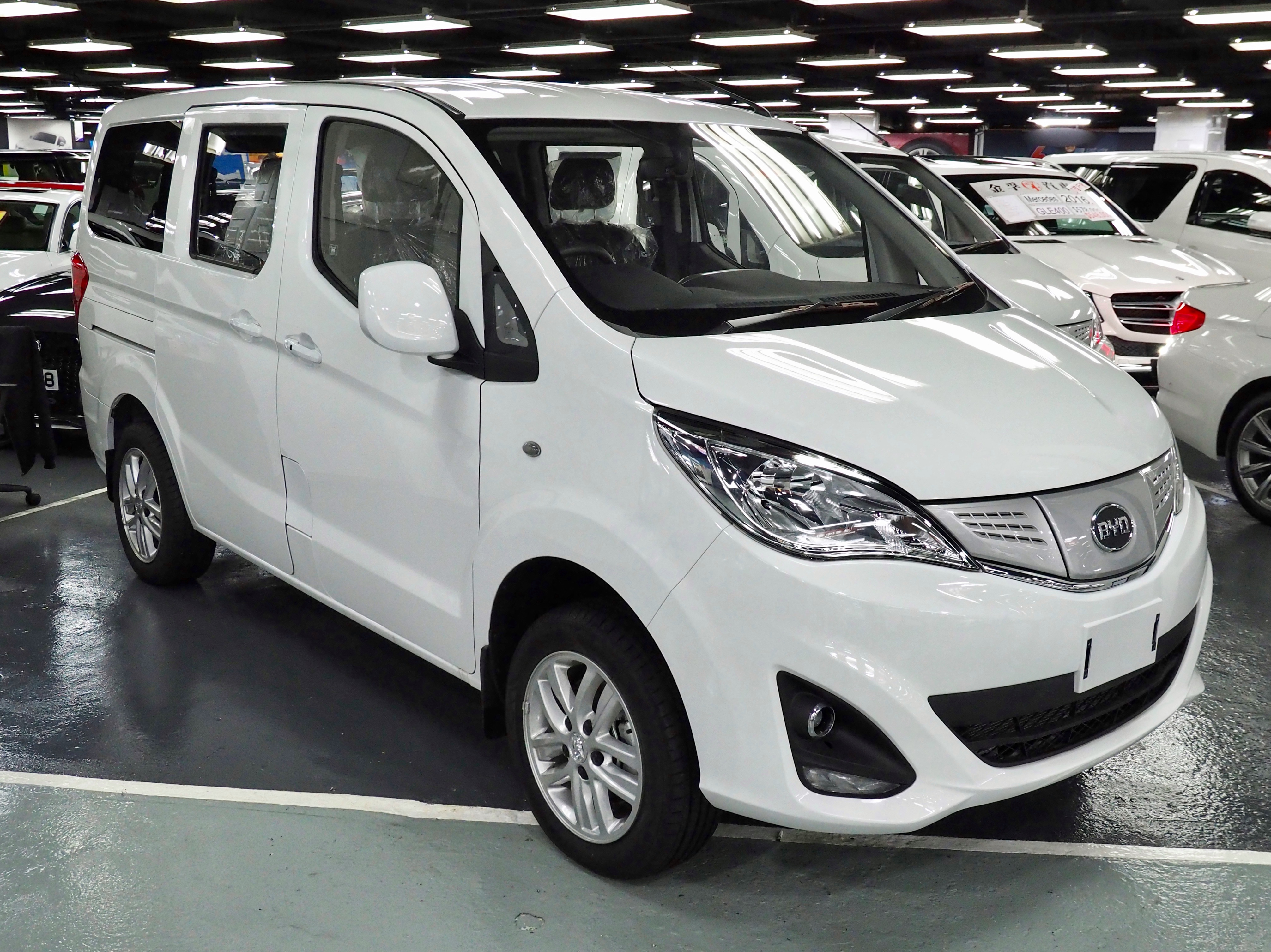 A 2015 BYD T3 taken in Kowloon, Bay, Hong Kong.